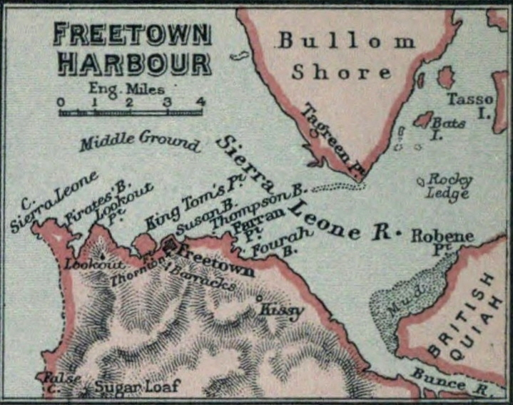 Map of Freetown Harbour (Sierra Leone)